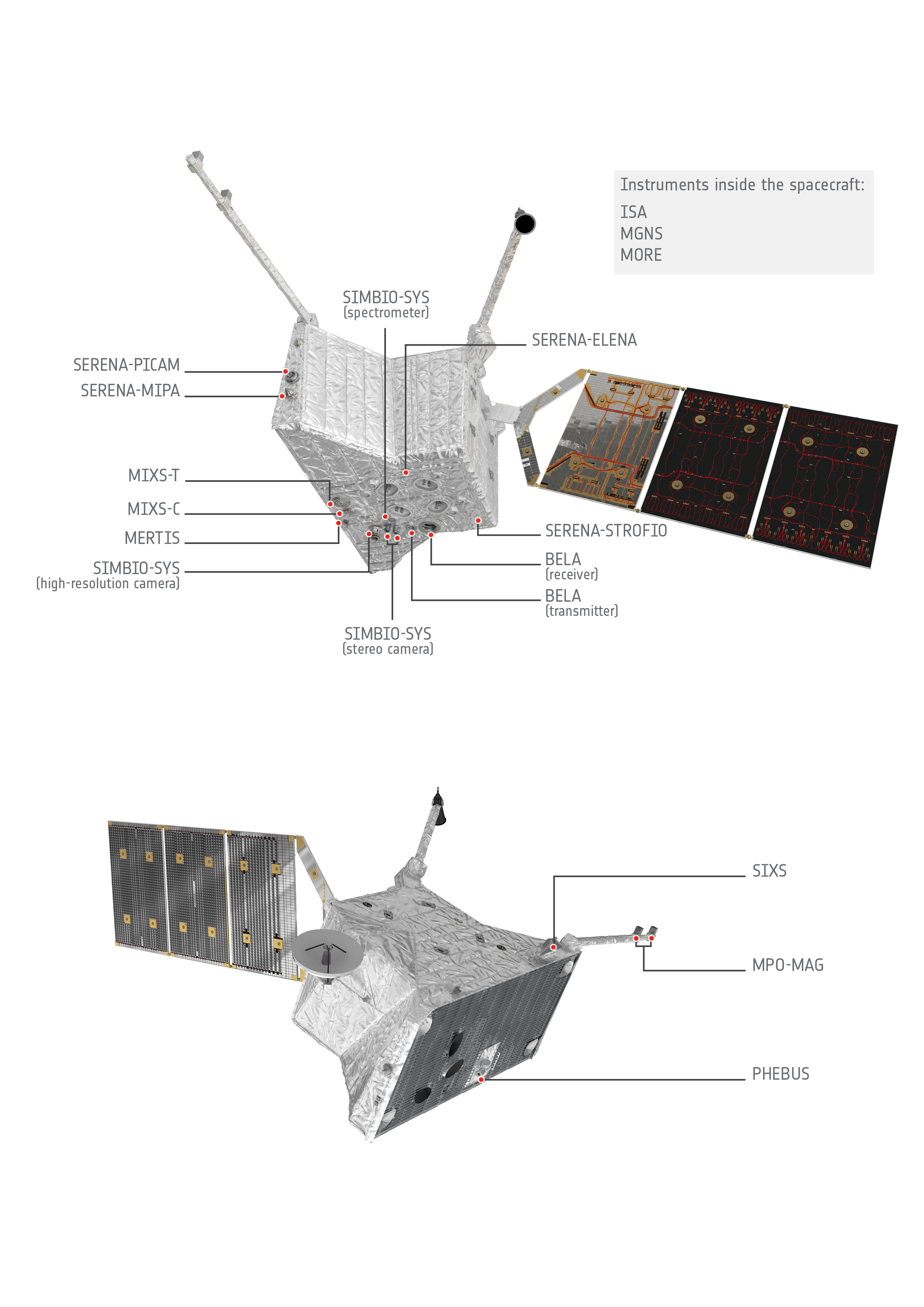 The science instruments of BepiColombo’s Mercury Planetary Orbiter. There are 11 instrument suites in total, several of which have multiple subsystems (as indicated in the graphic).BELA: BepiColombo laser altimeter ISA: Italian spring accelerometer MPO-MAG: Mercury Planetary Orbiter Magnetometer MERTIS: MErcury Radiometer and Thermal Infrared Spectrometer MGNS: Mercury Gamma-ray and Neutron Spectrometer MIXS: Mercury Imaging X-ray Spectrometer (-C: collimator; -T: telescope) MORE: Mercury Orbiter Radio-science Experiment PHEBUS: Probing of Hermean Exosphere by Ultraviolet Spectroscopy SERENA: Search for Exospheric Refilling and Emitted Natural Abundance (ELENA: Emitted Low-Energy Neutral Atoms; MIPA: Miniature Ion Precipitation Analyser; PICAM: Planetary Ion Camera; STROFIO: Start from a Rotating Field Mass Spectrometer) SIMBIO-SYS: Spectrometer and Imagers for MPO BepiColombo Integrated Observatory System SIXS: Solar Intensity X-ray and particle SpectrometerMore information about MPO's instruments.